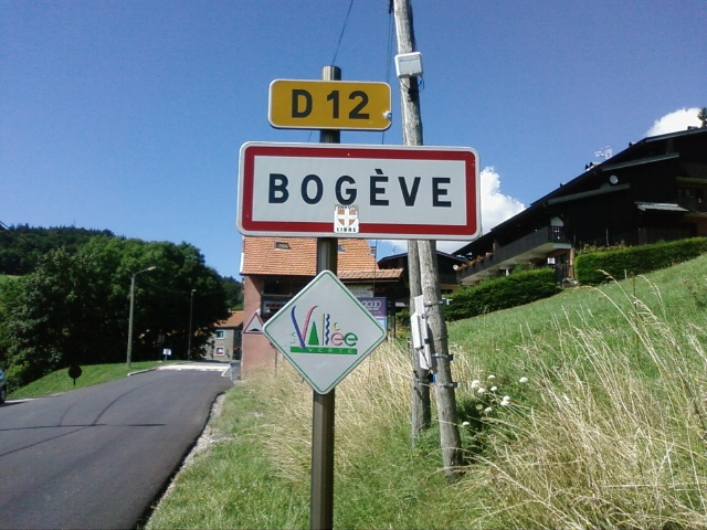 Bogève Road Signal